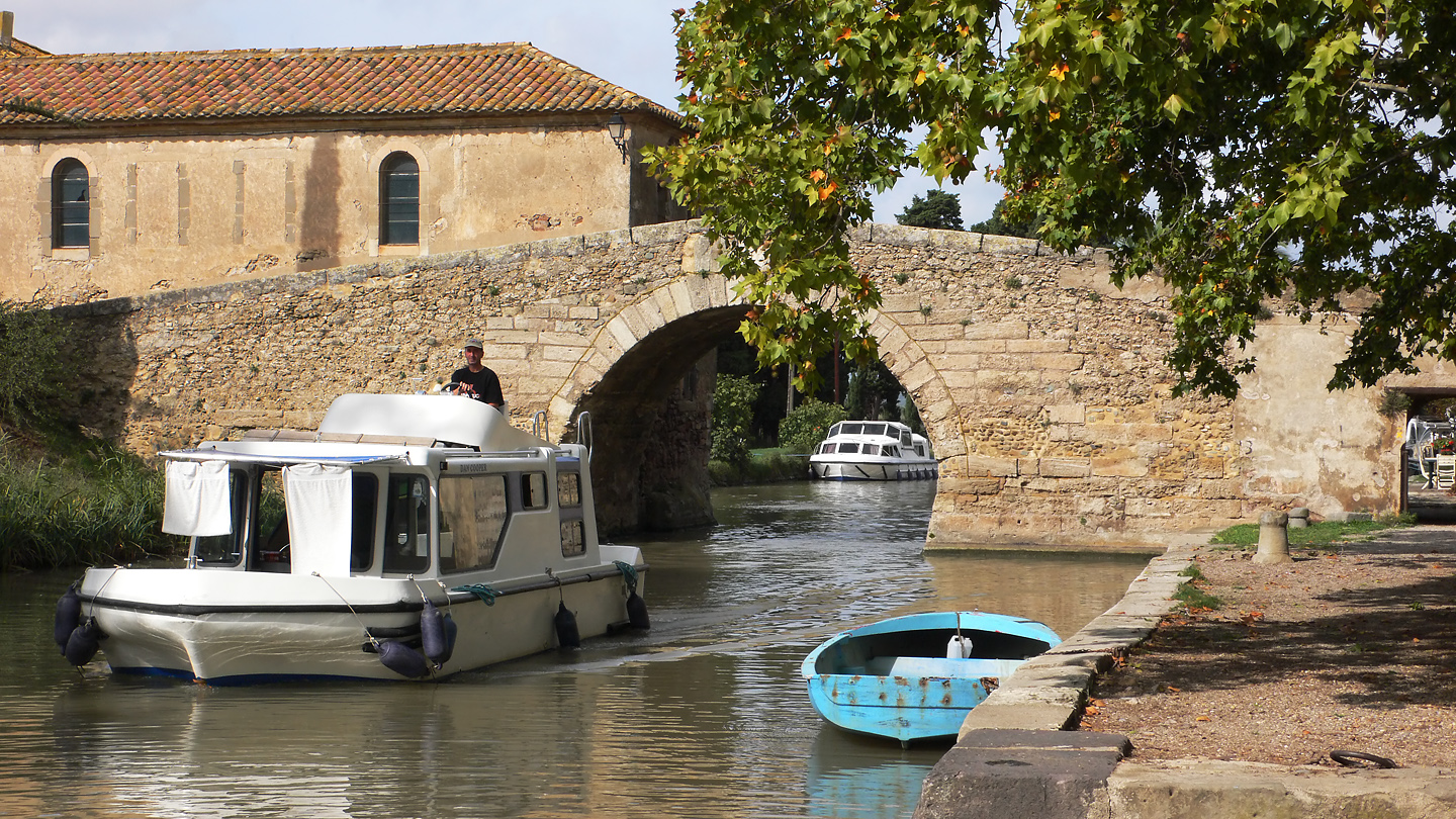 France : Bridge over Canal du Midi